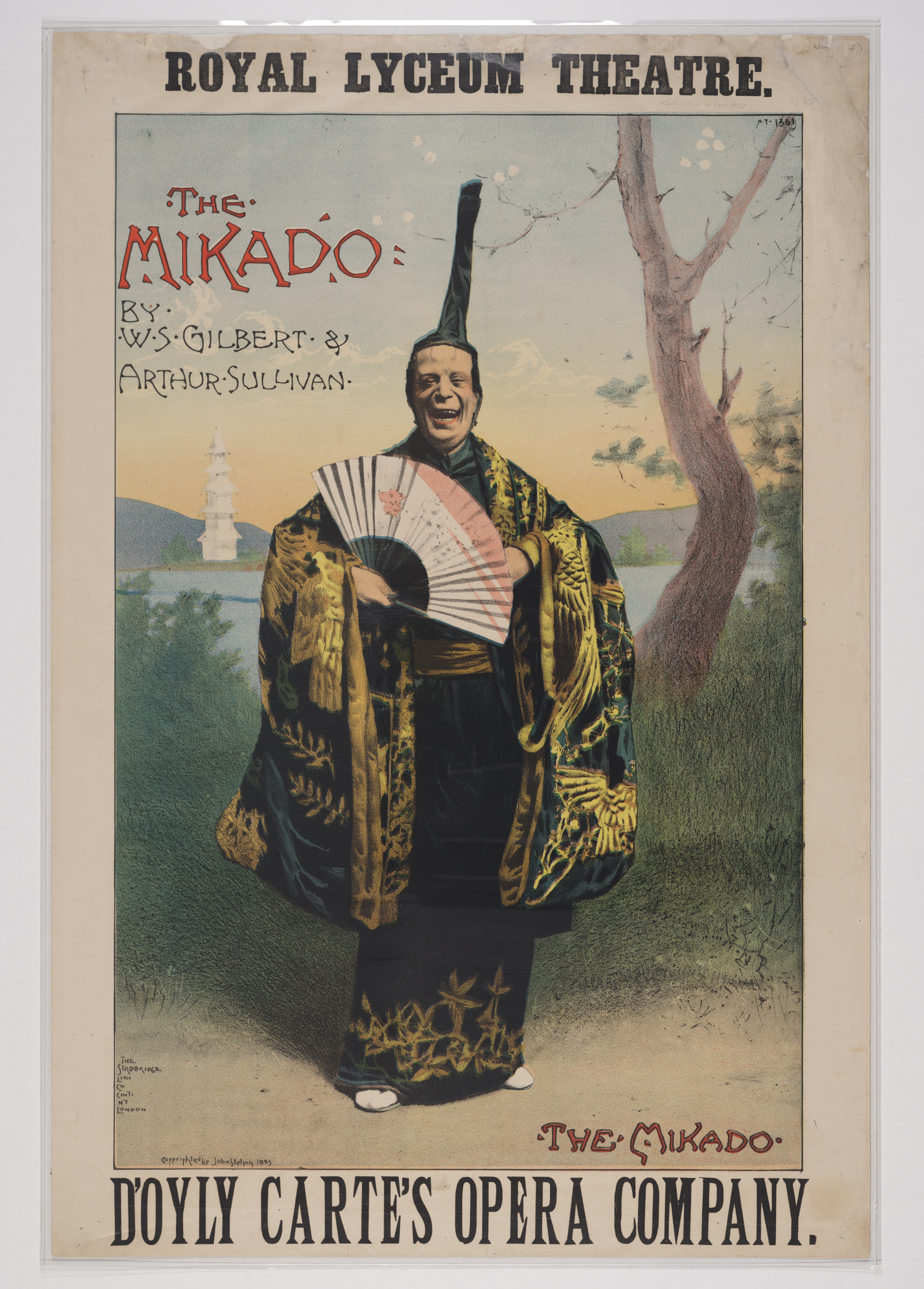 'The Mikado' by W. S. Gilbert & Arthur Sullivan. D'Oyly Carte's Opera Company. The Strobridge Lithographer Co., Cinti [= Cincinnati], N[ew] Y[ork], London. Copyrighted by John Stetson 1885.